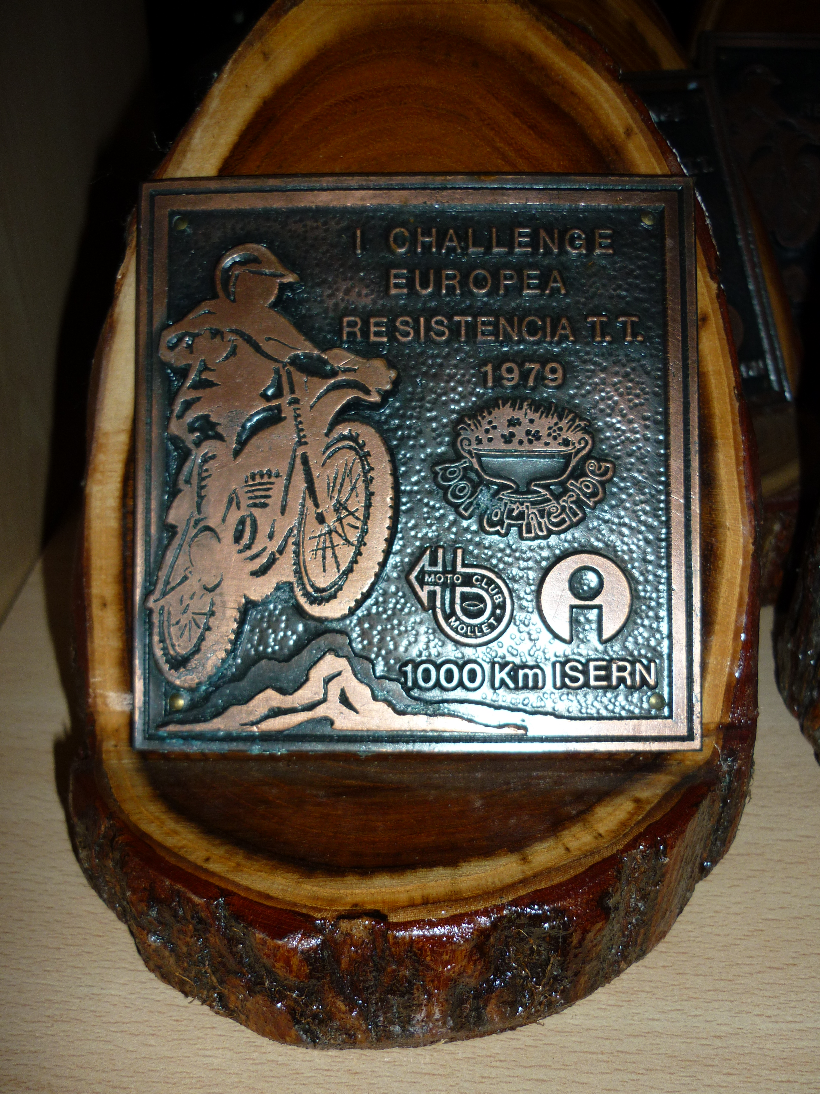 1000 Kms Isern Trophy 1979.Isern Motorcycle Museum, Mollet del Vallès (Catalonia).